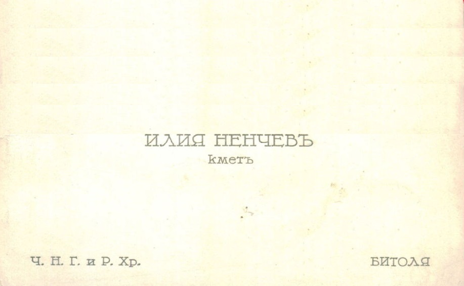 Iliya Nenchev Card